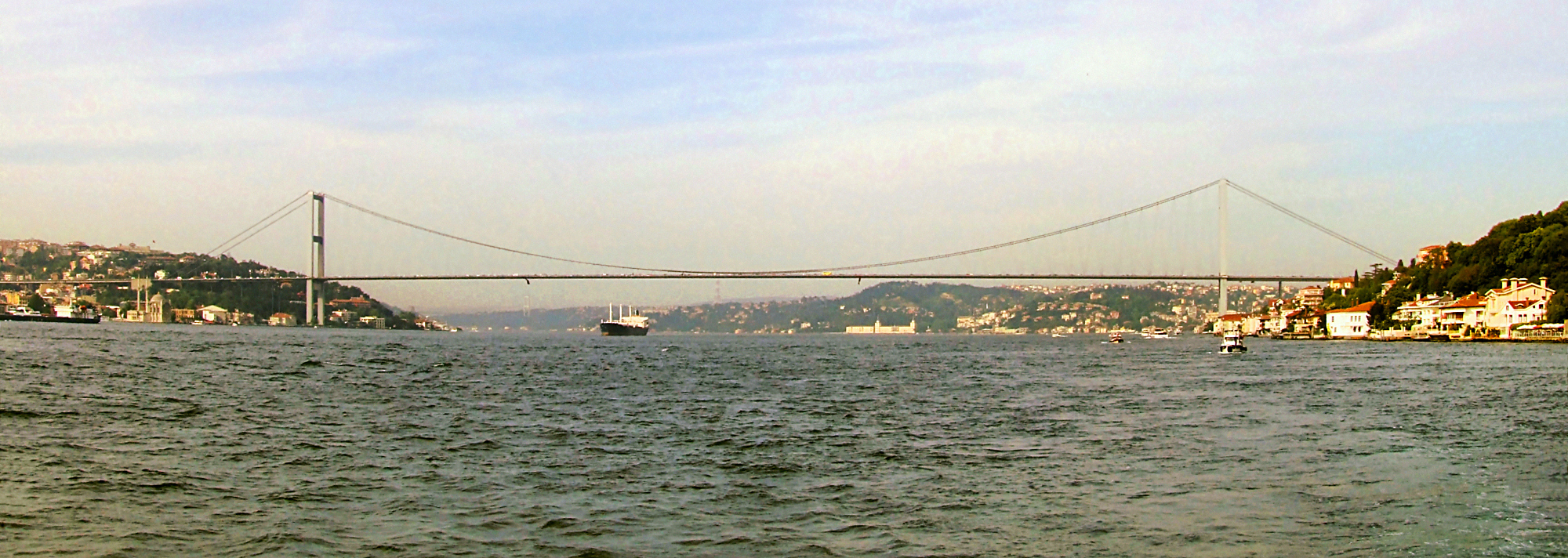 Stambuł, Most Bosforski (starszy); Istambul, Bosphorus Bridge (older)